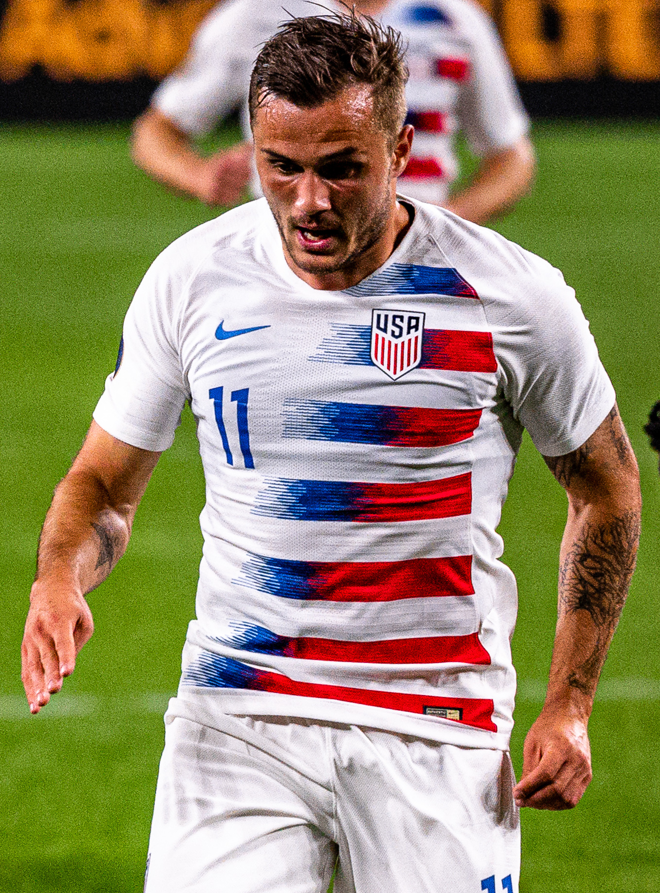 USMNT vs. Trinidad and Tobago